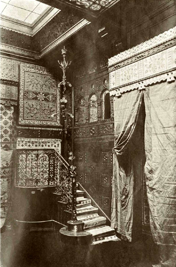 Interior replica from Galicia (then Crown land of the western or Cisleithanian part of the Austro-Hungarian Empire) paneled with carved and gilded oak wood. The room was established and furnished with Galician arts and crafts objects for the exposition of the Austro-Hungarian Empire, Palais de la Décoration, du Mobilier et des Industries diverses (Palace of Décorative arts) at the Paris Exposition (1900), Esplanade des Invalides, Paris.